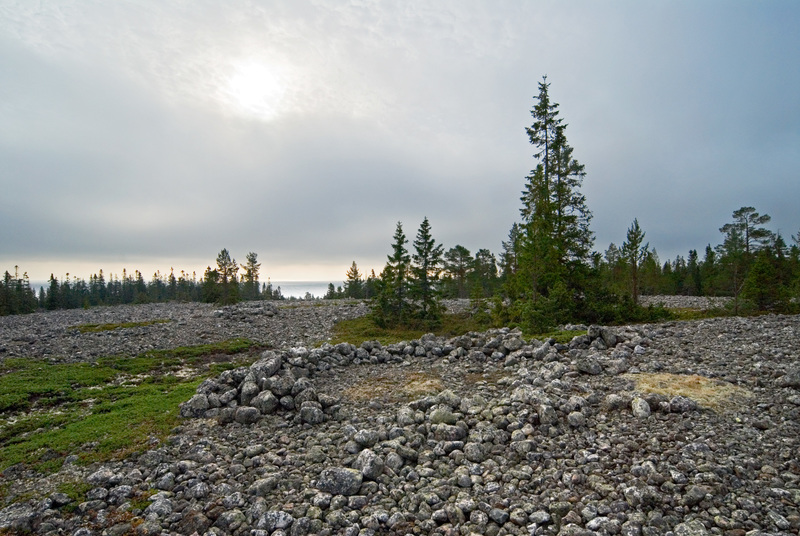 Remains of fishers' and seal hunters' hut (iron age) at Bjuröklubb, Västerbotten county, Sweden.